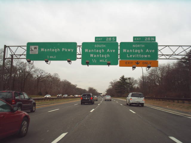 The Southern State Parkway westbound near the ramps to exit 28N in North Wantagh, New York.